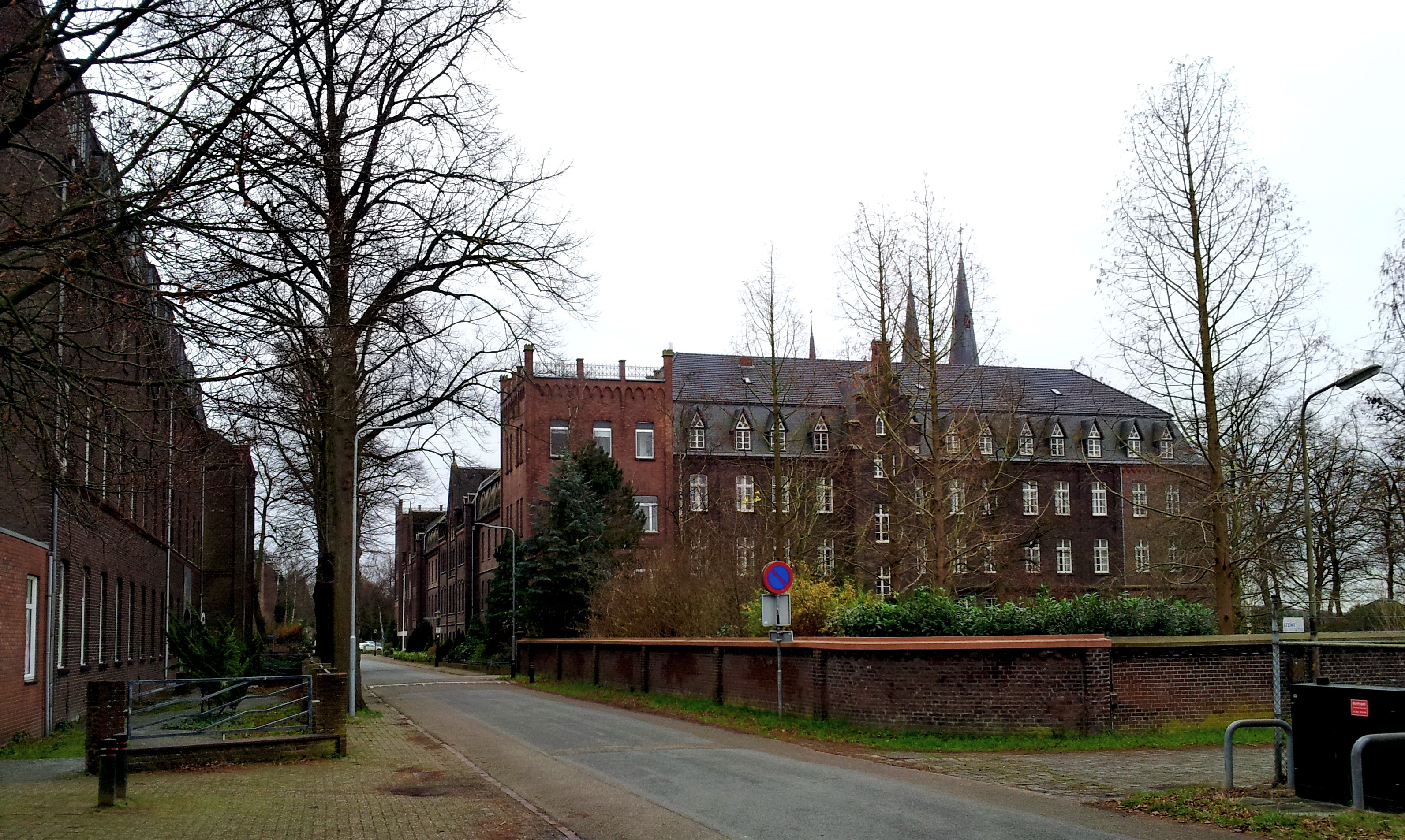 View from the north of Missiehuis Sint-Michaël in Steyl-Tegelen, Limburg, the Netherlands. The monastery in Steyl is the motherhouse of the Society of the Divine Word (Latin: Societas Verbi Divini or SVD) of Roman Catholic missionaries.